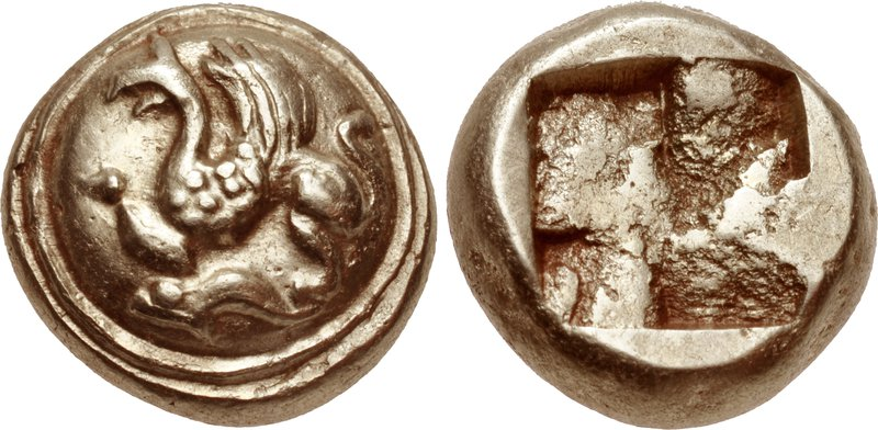 IONIA, Phokaia. Circa 521-478 BC. EL Hekte – 1/6 Stater (10mm, 2.55 g). Round shield decorated with griffin springing left above seal left / Quadripartite incuse square.